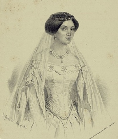 Portrait of Italian opera singer Margherita Zenoni (1815–1878) in the costume of the title character of Donizetti's opera Gemma di Vergy